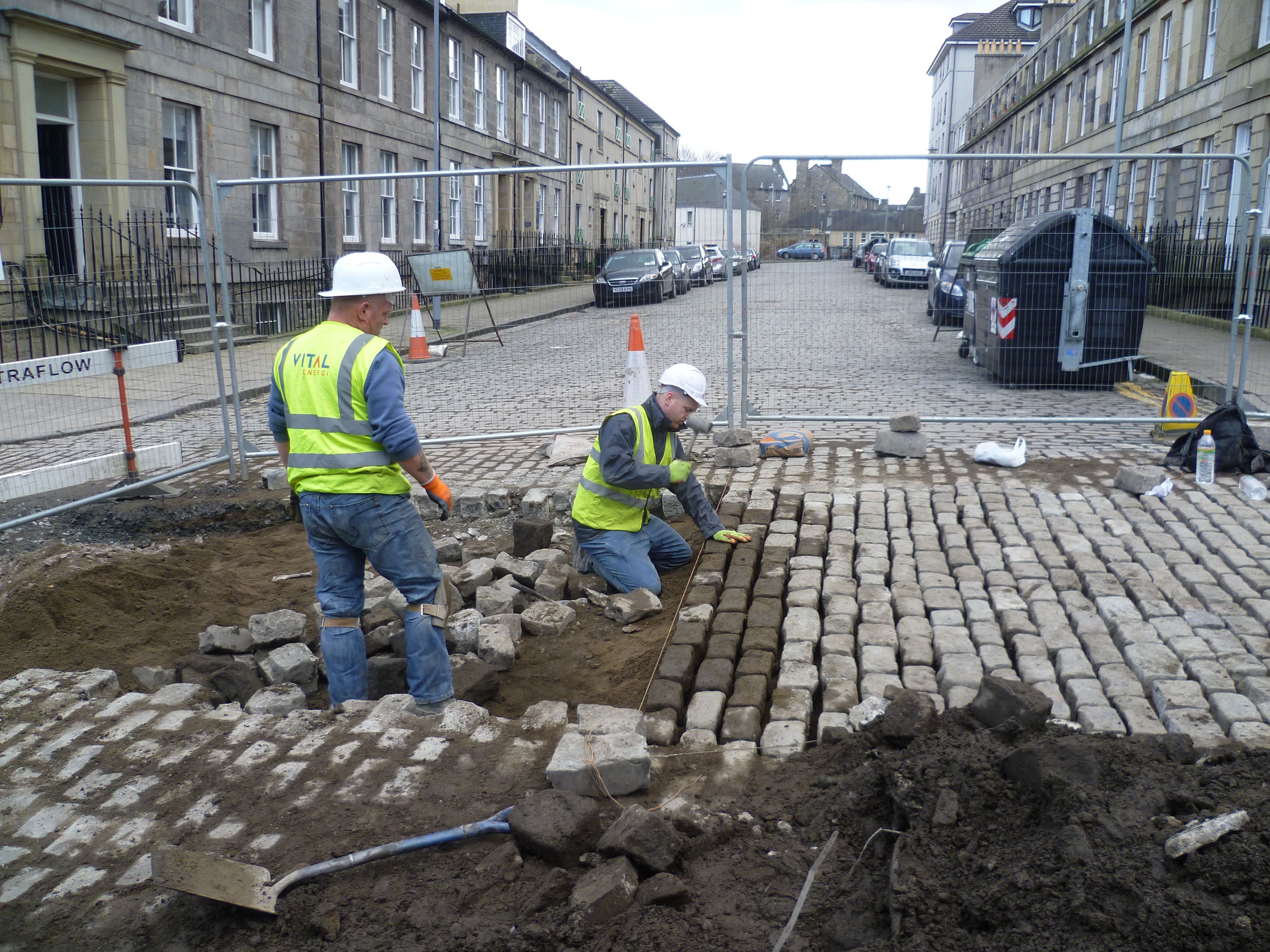 Laying setts at the junction of Drummond Street and Roxburgh Street in Edinburgh, Scotland in 2013